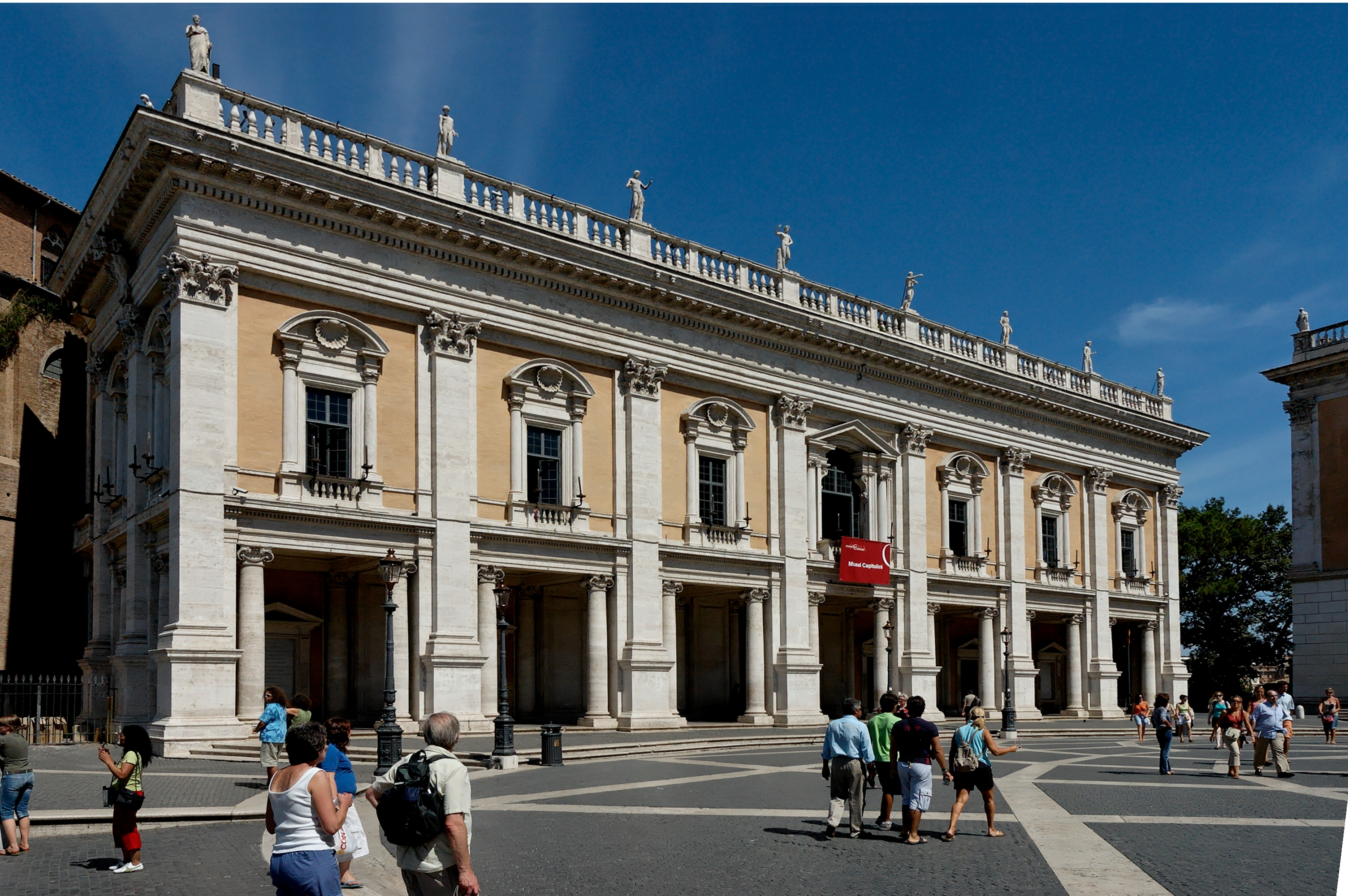 The Palazzo Nuovo, one of the two buildings of the Musei Capitolini in Rome.